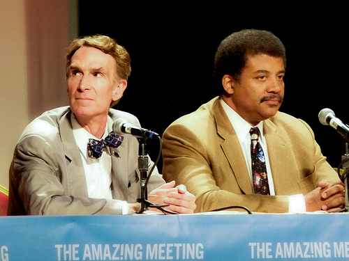 Bill Nye and Neil Degrasse Tyson on the Our Future in Space panel at TAM Las Vegas 2011